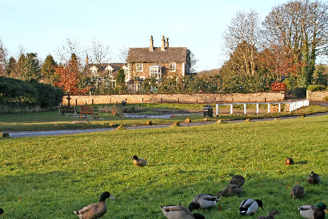 Village Duck Pond, Brantingham, East Riding of Yorkshire, England.